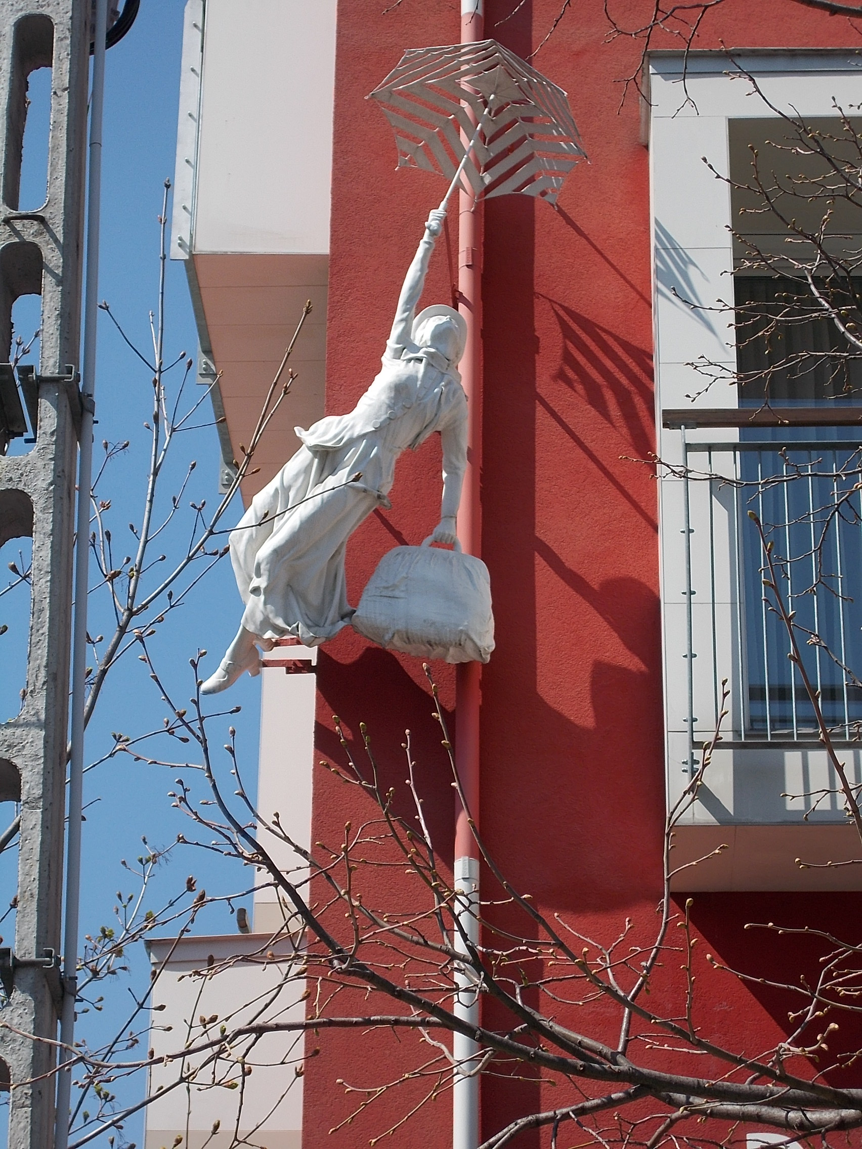 Purple House with sculptures. Titles: 'boy with kite', 'Mary Poppins flying home', 'birds', 'paper airplane' (by Mónika Hafner, 2009 steel, plastic, modern, building ornament), The Purple House planned by Tamás Bulcsu, Éva Fortvingler and Balázs Móser - Ulászló and Dinnye streets corner, Kelenföld neighborhood, Újbuda.